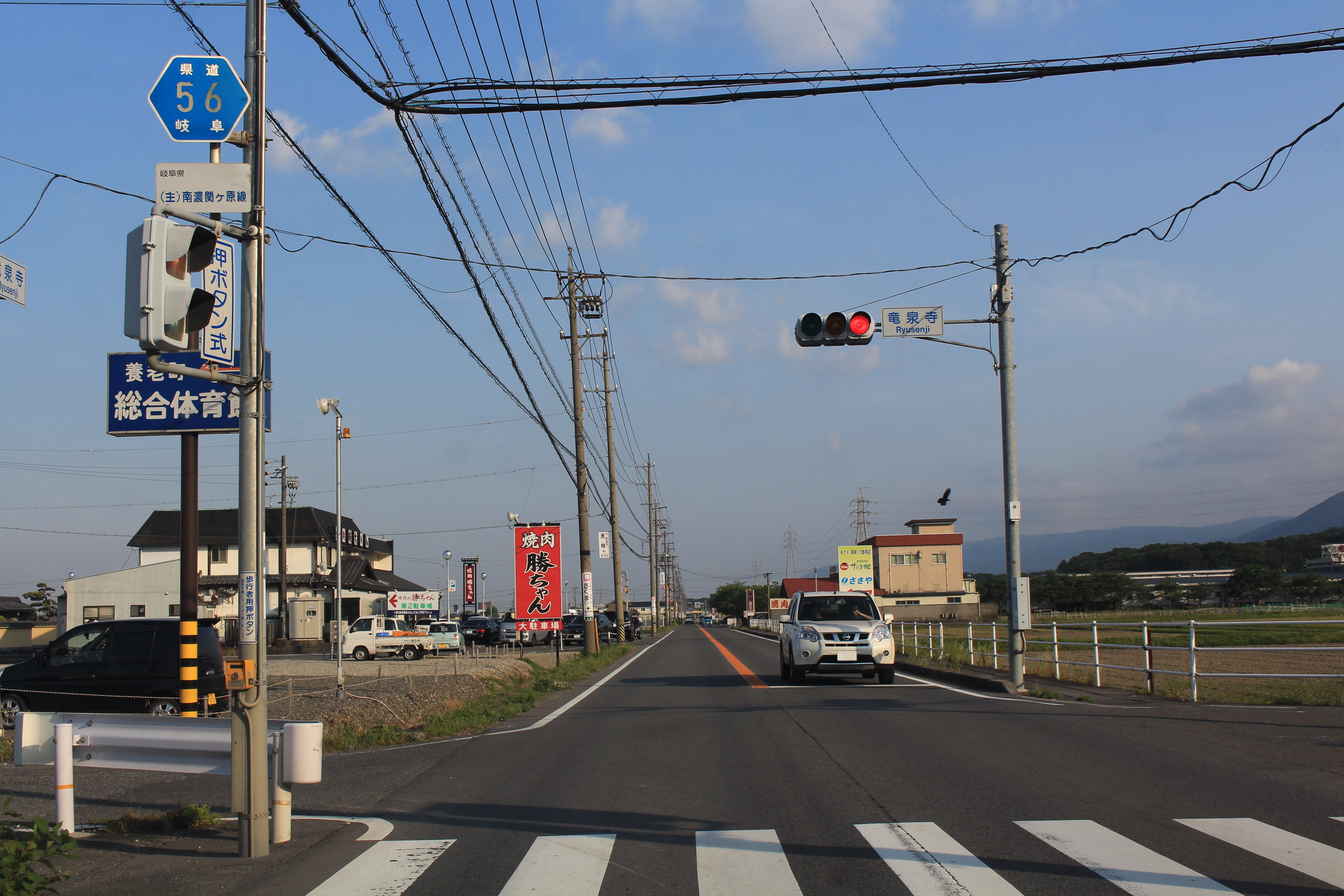 Gifu Prefectural Road Route 56 in Ishibata, Yoro, Gifu prefecture, Japan.